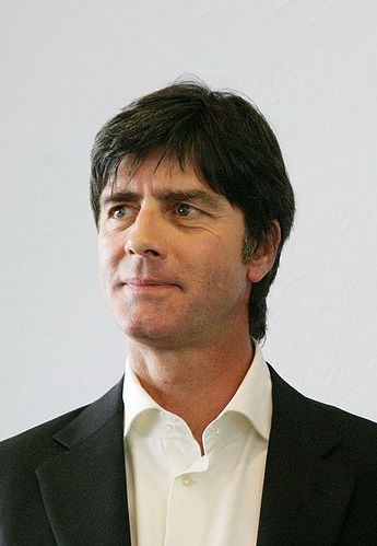 Joachim Löw und Hans-Dieter Flick during press conference in August 2006. During the press conference Flick was announced to be the new assistant coach of the German national football team.